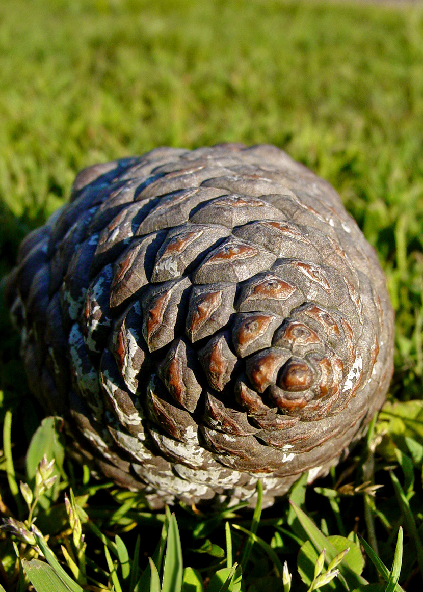 Pinus radiata cone on grass, New Zealand.cone